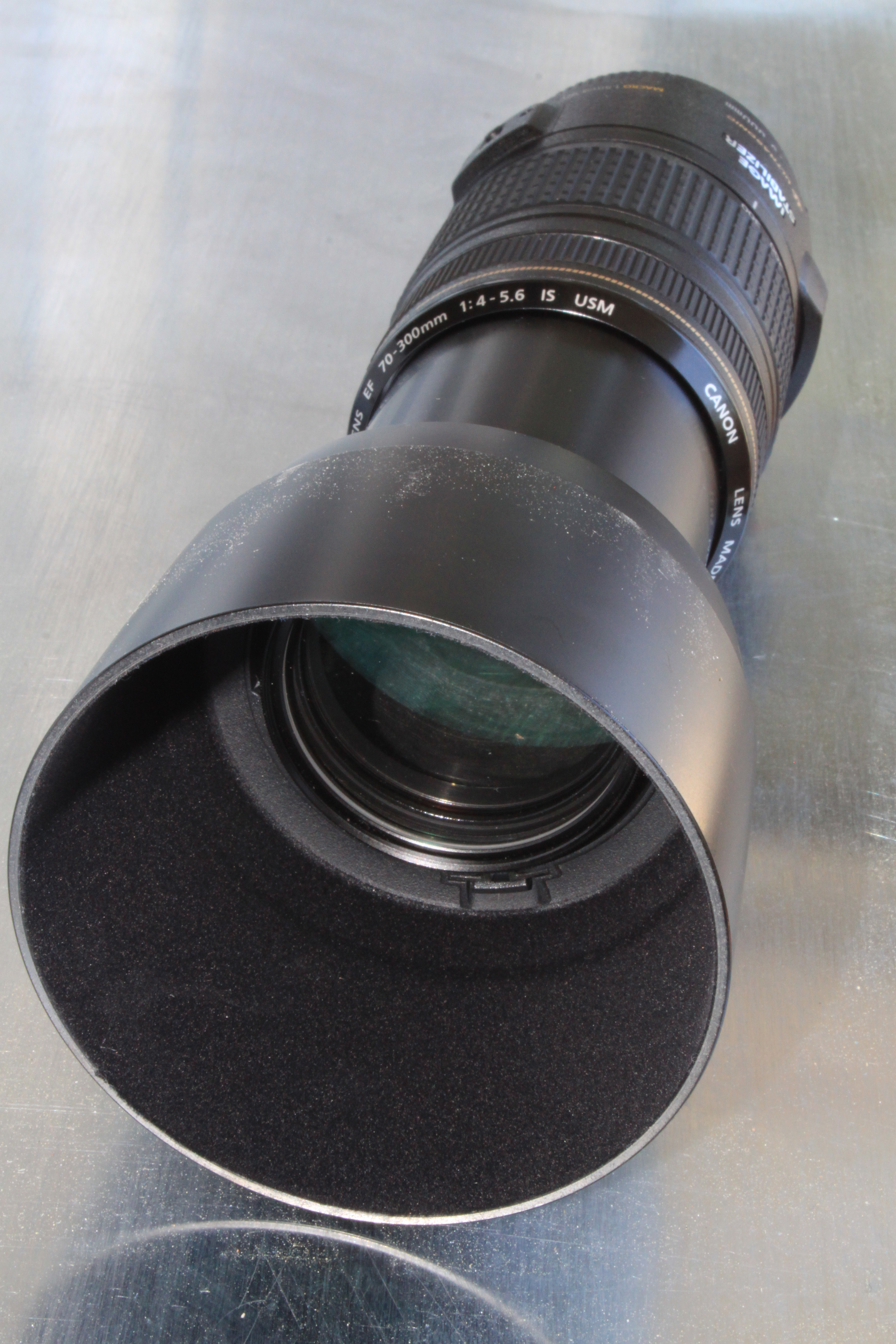 A lens hood on a Canon 70-300m telephoto zoom lens.